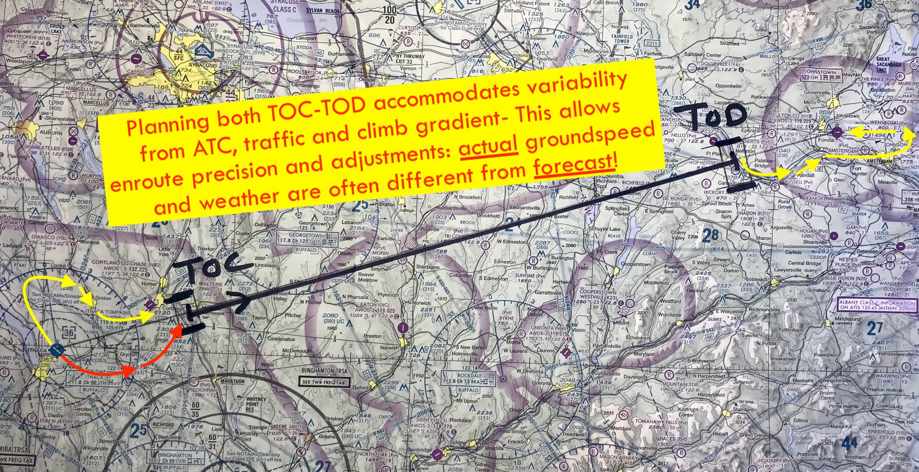 Pre-planning a TOC and TOC allow enroute precision despite variability in ATC vectors, climb gradiant and traffic you may encounter.